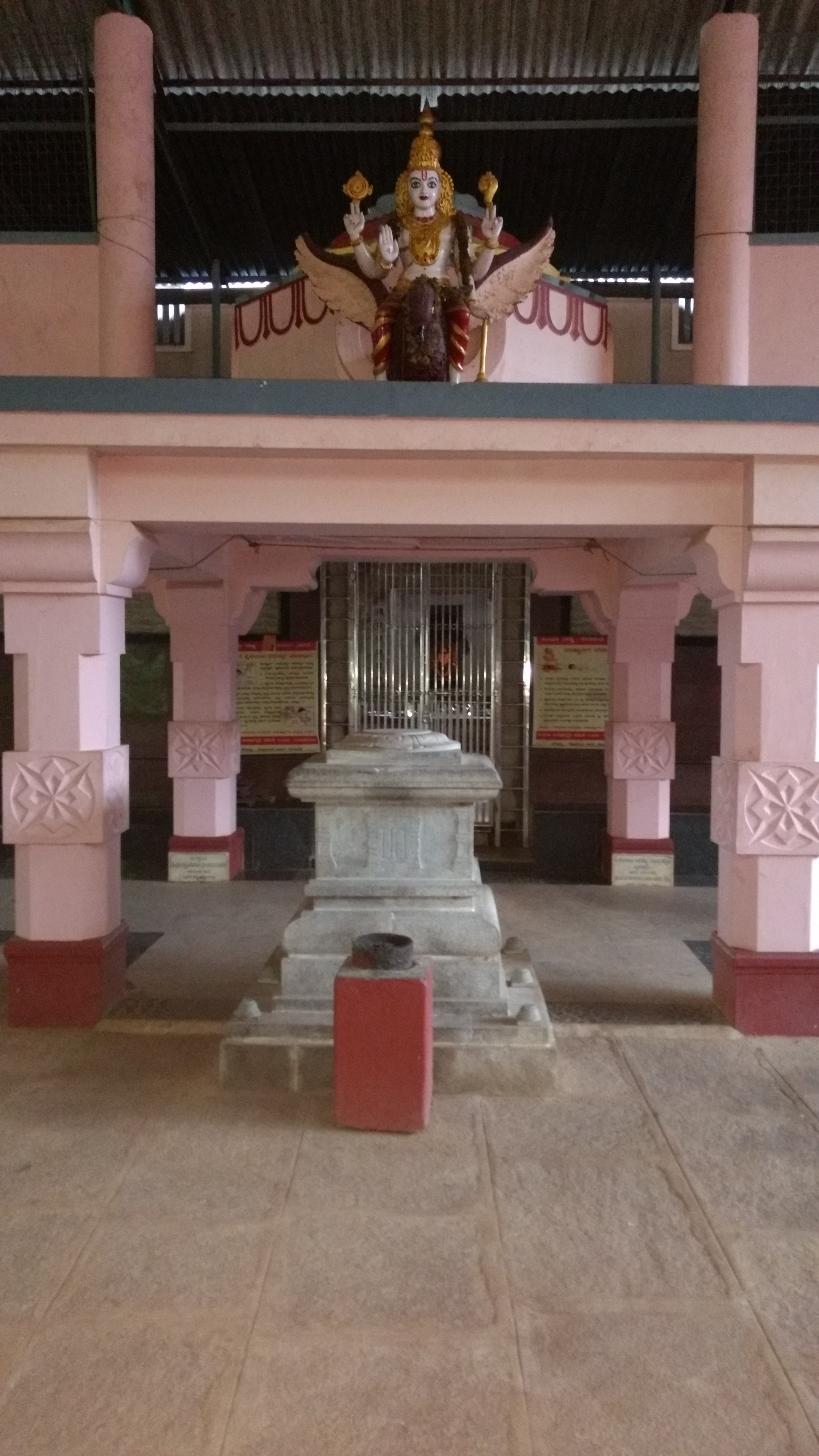 Adi Janardana Temple in Pangala, Udupi district, India